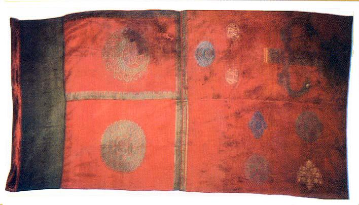 Flag of Baku Khanate captured in 1806 by Russian general Sergey Bulgakov.